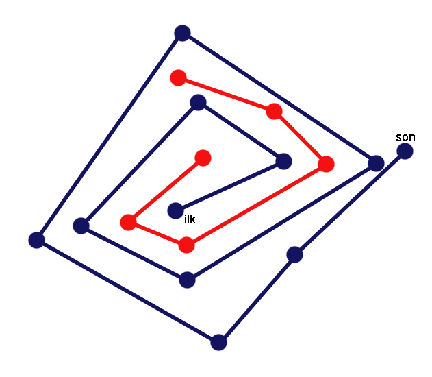 nails: a kids' game played on soft damp ground with a nail and two players